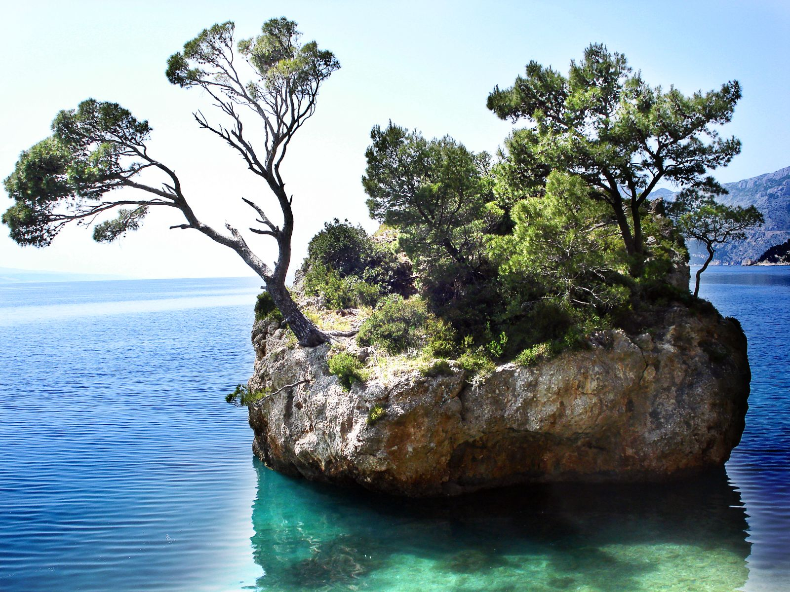 The "Brela Stone" (cro. Kamen Brela), the landmark of Brela just off the Punta Rata beach.